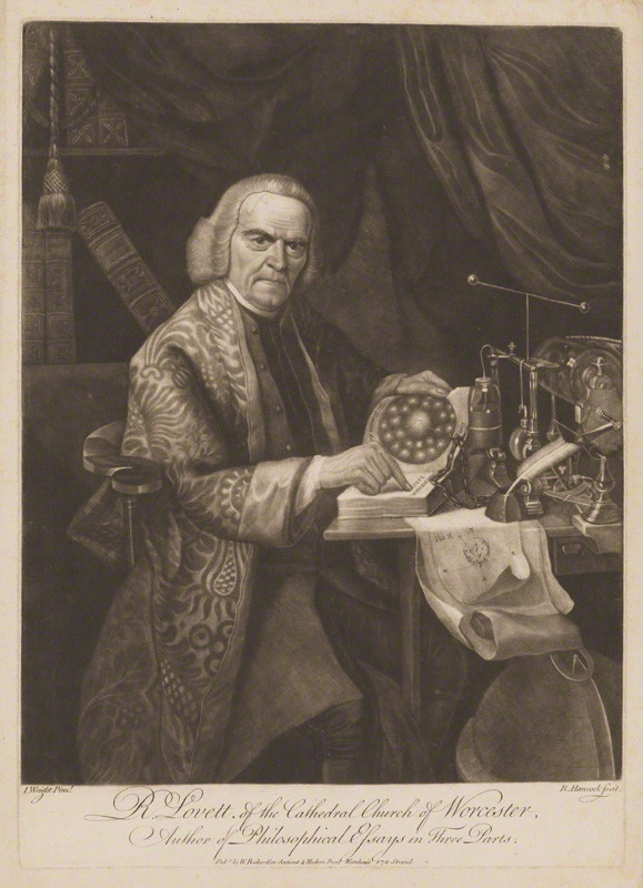 Richard Lovett's portrait by Robert Hancock, published by William Richardson, after Joseph Wright. Mezzotint, late 18th century. On their homepage, the National Portrait Gallery in London falsely claims copyright on it. It is quite obvious the actual author has been dead for more than 70 years, hence the work is in public domain.